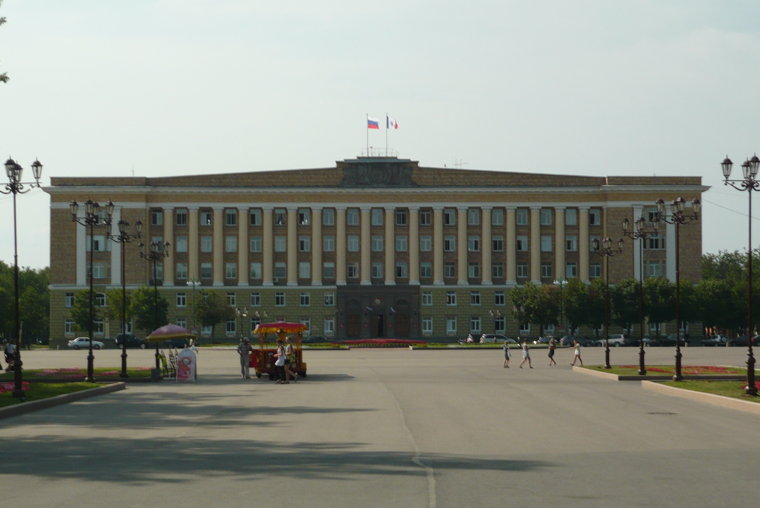 Novgorod oblast administration building in Veliky Novgorod. Front facade.